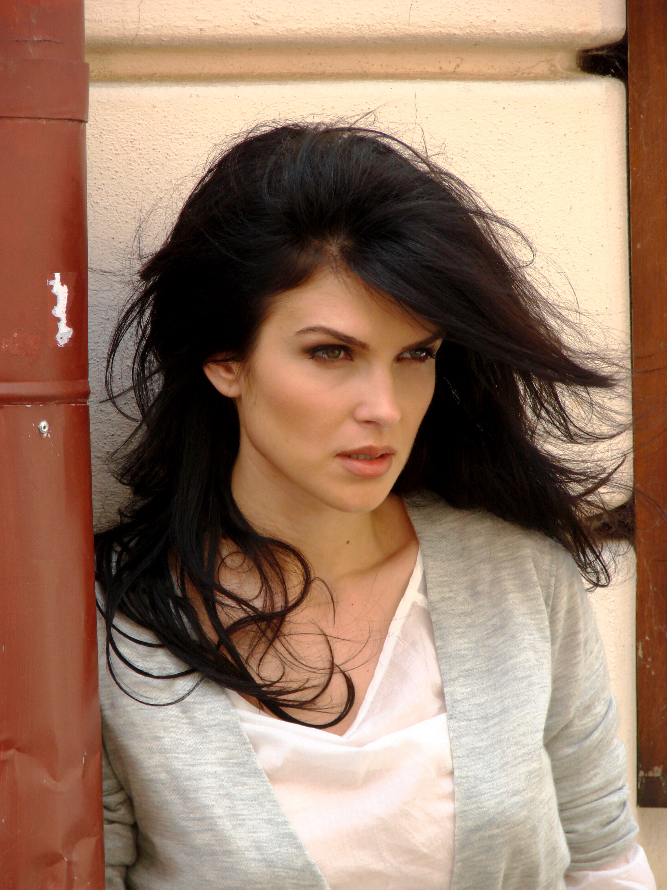 Monica Bârlădeanu in downtown Bucharest, Romania. June 2007.